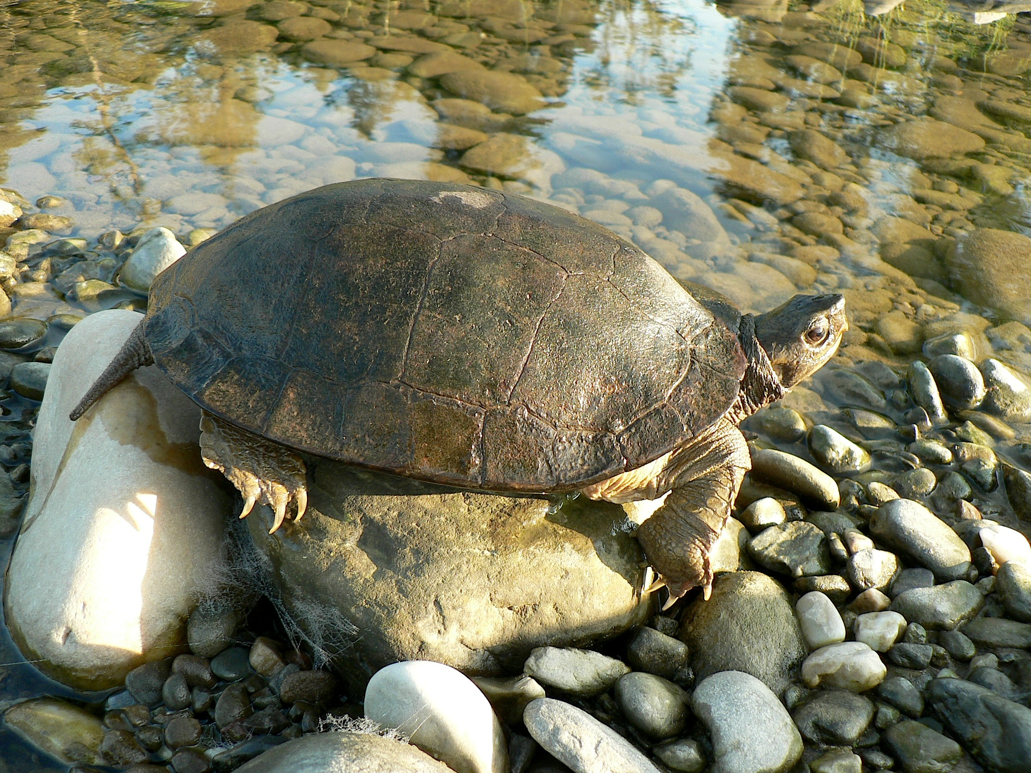 This is a Leaf turtle Cyclemys sp., possibly either Cyclemys oldhami or gelemi. This photo was taken along a perennial stream (Upper Dikorai) in Pakke Wildlife Sanctuary and Tiger Reserve in April 2006.